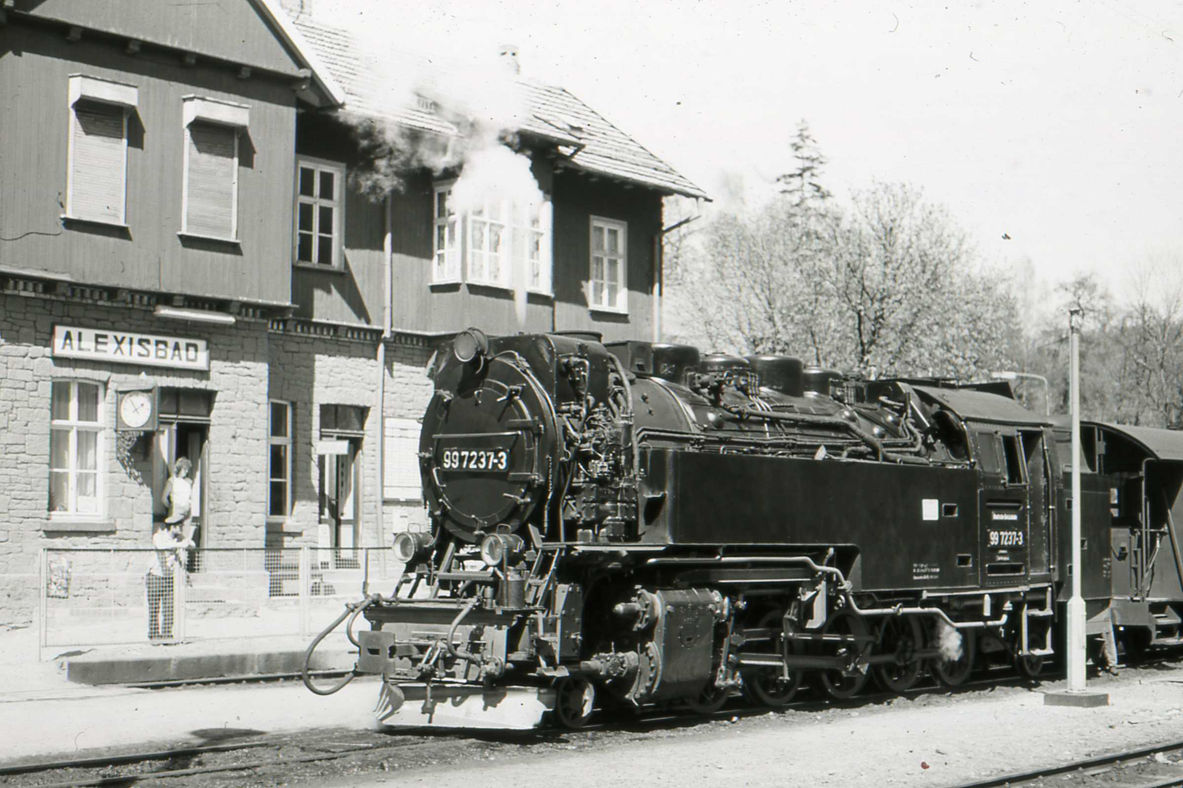 99 7237-3 at Alexisbad station on the Selketalbahn between Gernrode and Stiege.